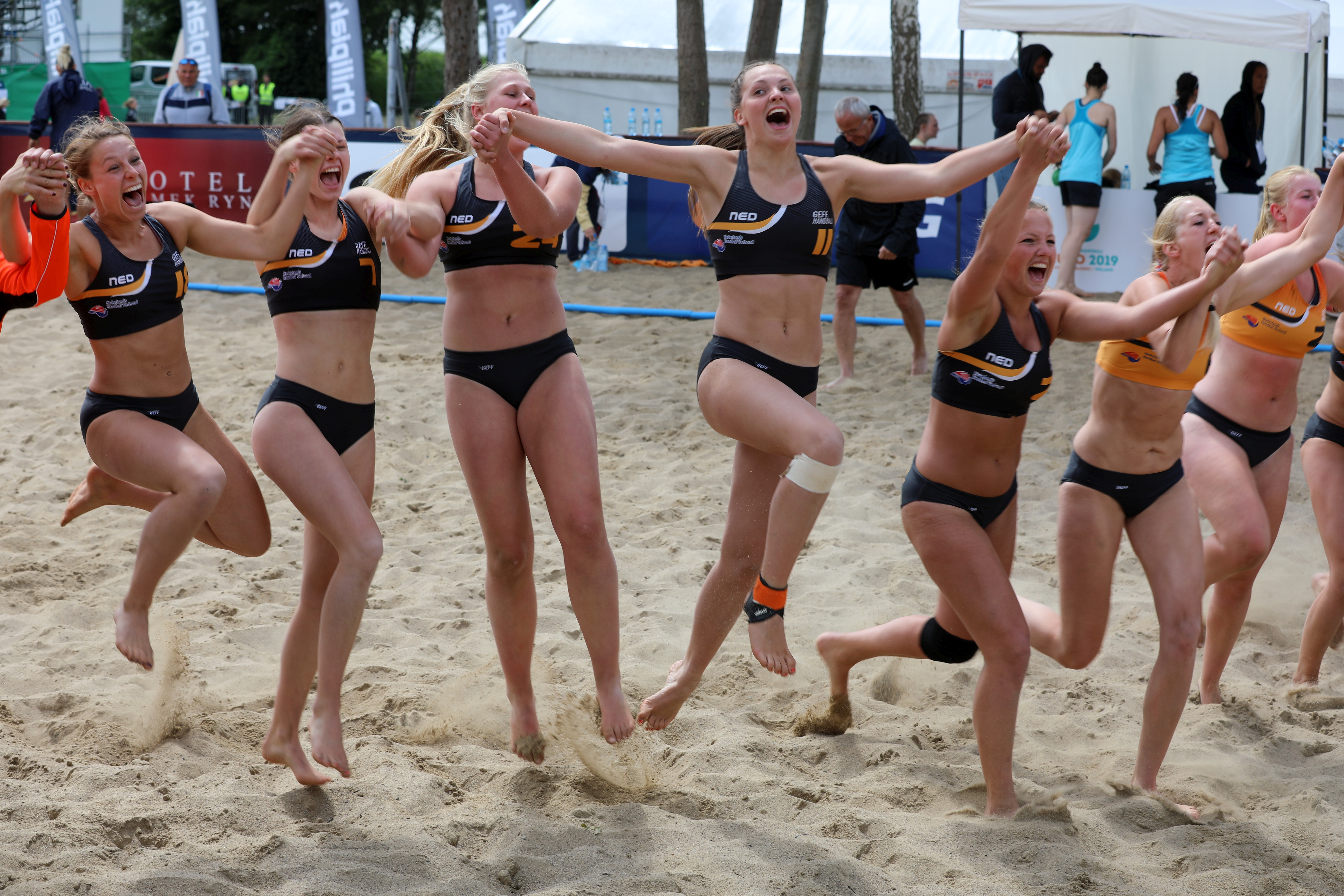 Beach handball Euro; Day 3: 4 July 2019 – Women Main Round Group I – Hungary-Netherlands 0:2 (20:23, 14:21)